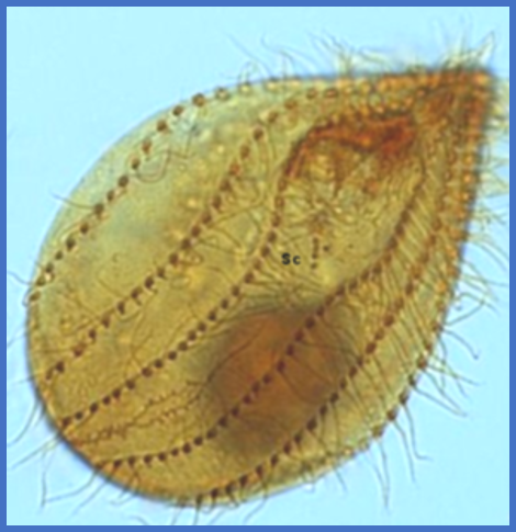 Figure 1: “Philasterides dicentrarchi, image provided by José Manuel Leiro, Jesús Lamas. University of Santiago de Compostela”